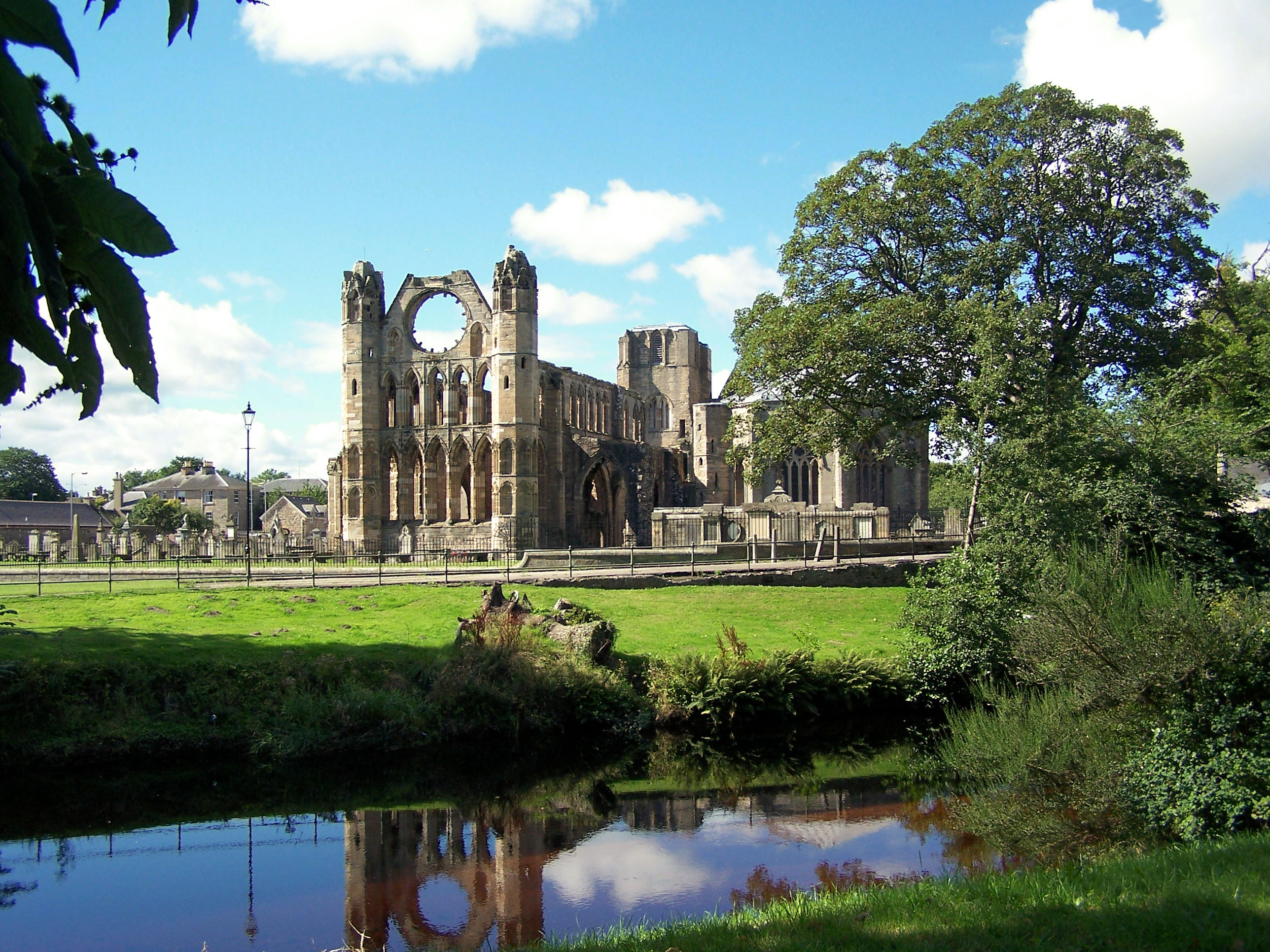 View of Elgin Cathedral with River Lossie in foreground. Taken by Bill Reid.